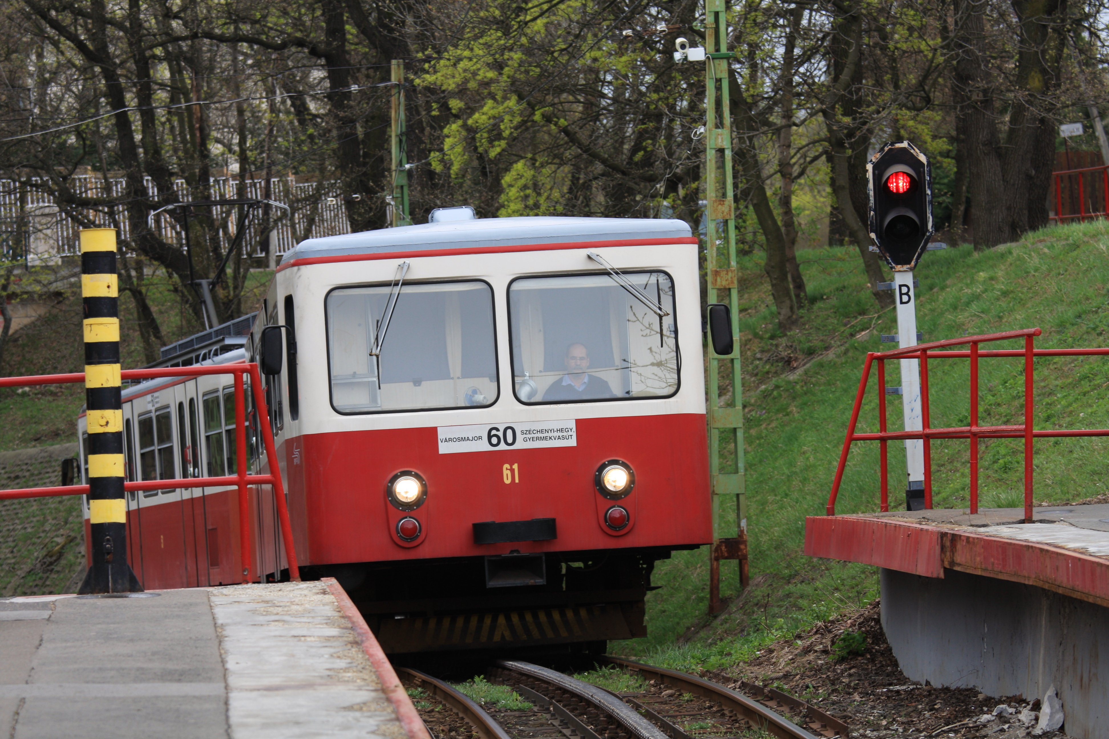 The Budapest Cog-wheel Railway entering the terminus Széchenyi hegy